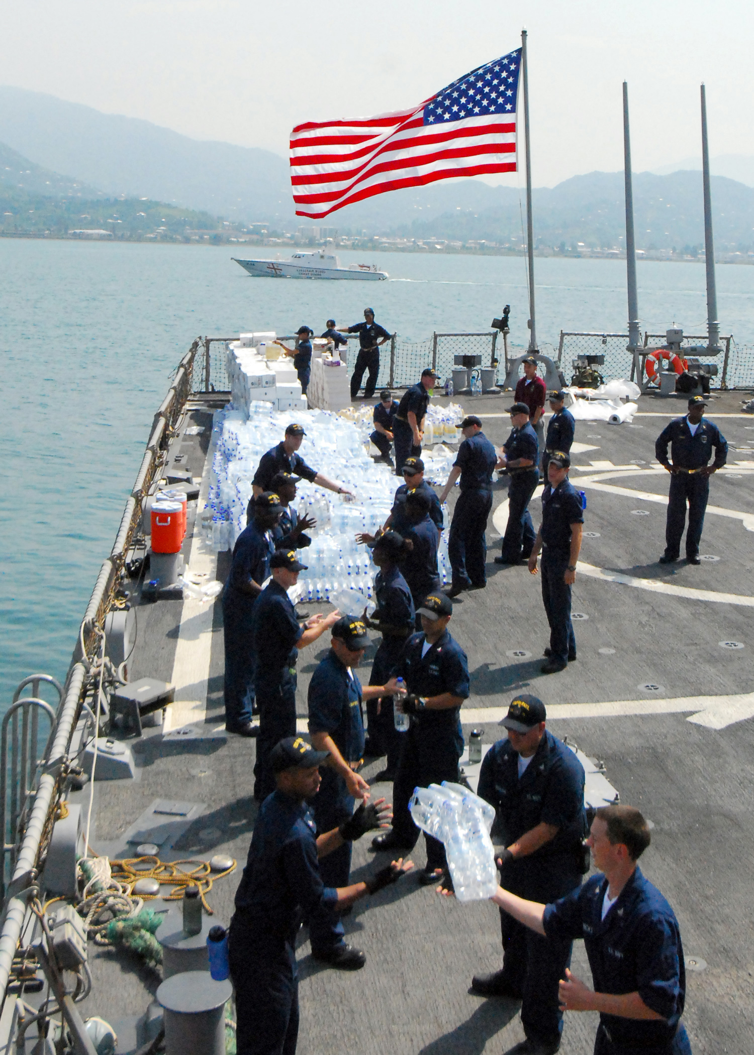 080824-N-4044H-090 BAT'UMI, Republic of Georgia (Aug. 24, 2008) Sailors aboard the guided-missile destroyer USS McFaul (DDG 74) unload humanitarian supplies to be transported to the people of Georgia as a Georgian coast guard vessel sails in the background. The humanitarian assistance is in response to the request of the government of the Republic of Georgia. Donated items include hygiene items, baby food and infant supplies. (U.S. Navy photo by Mass Communication Specialist 3rd Class Eddie Harrison/Released)